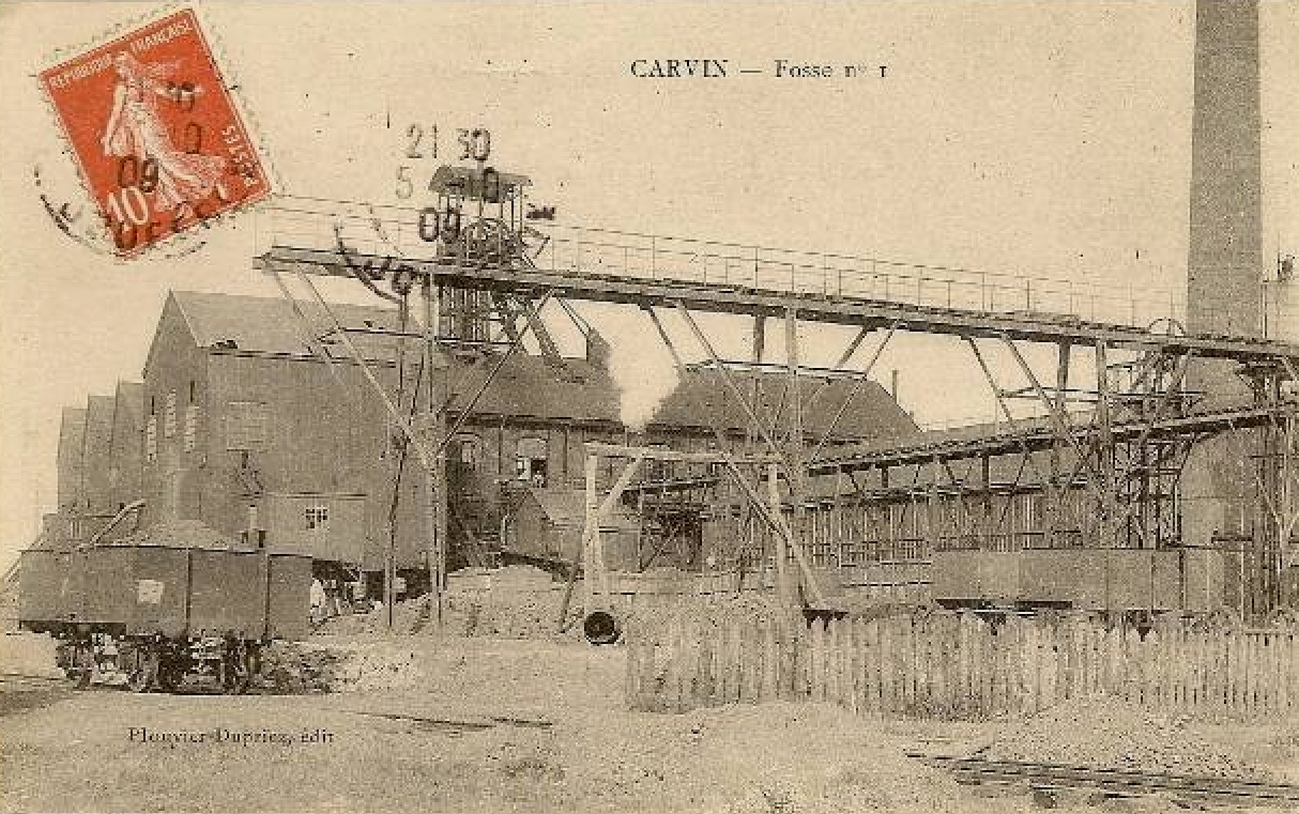 Compagnie des mines de Carvin, Pas-de-Calais, France.